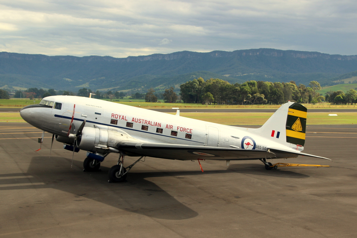 One of two ex-RAAF Douglas C-47 Dakotas owned and operated by the Historical Aircraft Restoration Society (HARS) at its home base of Illawarra Regional Airport in Albion Park Rail, New South Wales, Australia. Image of VH-EAF taken by YSYguy on 20 June 2014 and uploaded for use in the List of surviving Douglas C-47 Skytrains. Image edited using Picasa software. YSSYguy (talk) 10:17, 30 October 2016 (UTC)